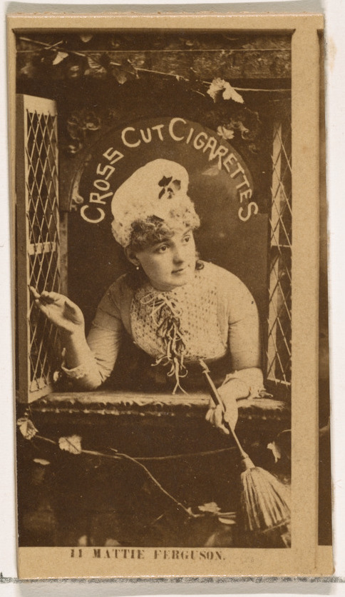 Print; Photographs